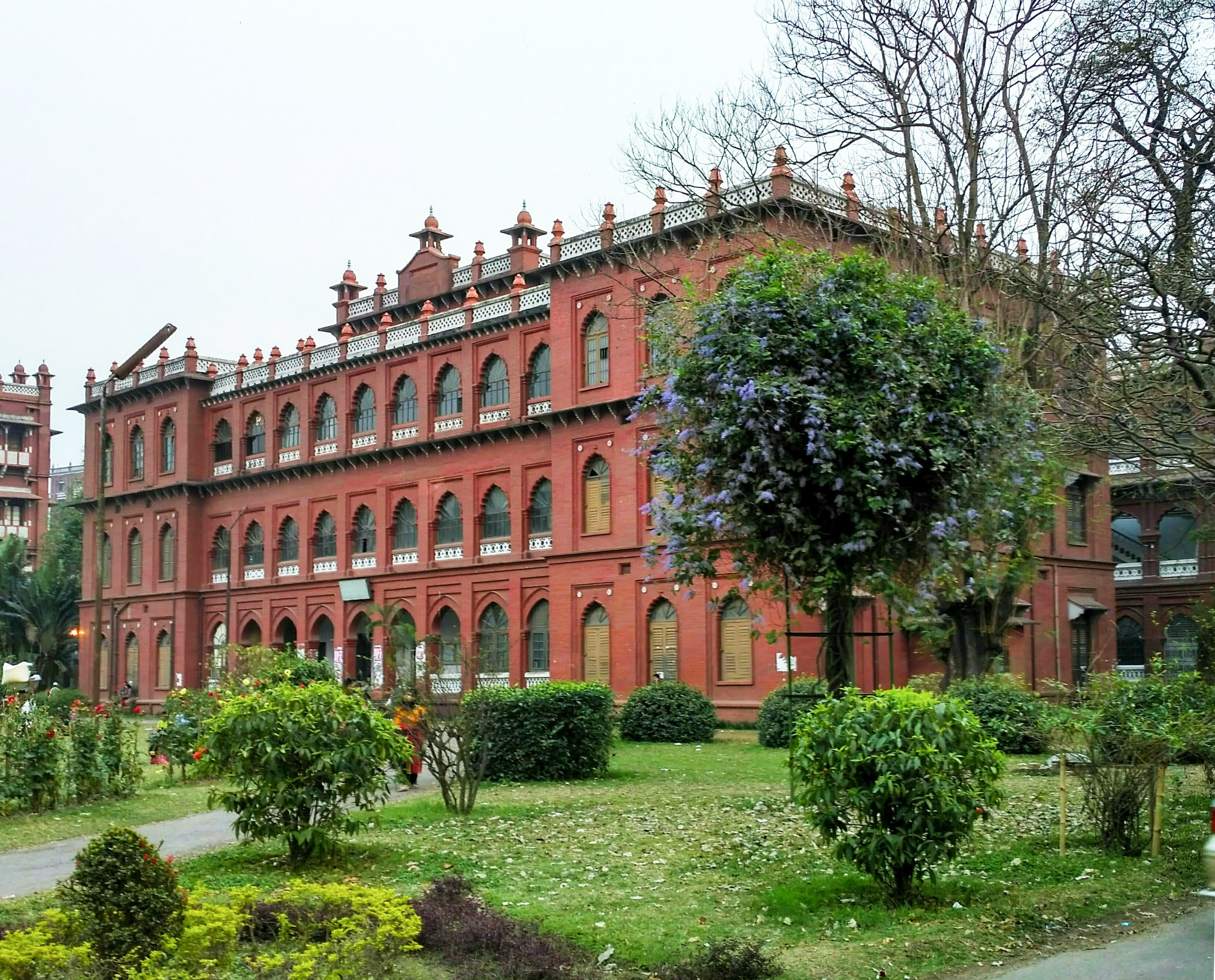 View of the building of Department of Chemistry, and Department of Applied Chemistry and Chemical Engineering, Curzon Hall campus, University of Dhaka. 2016.